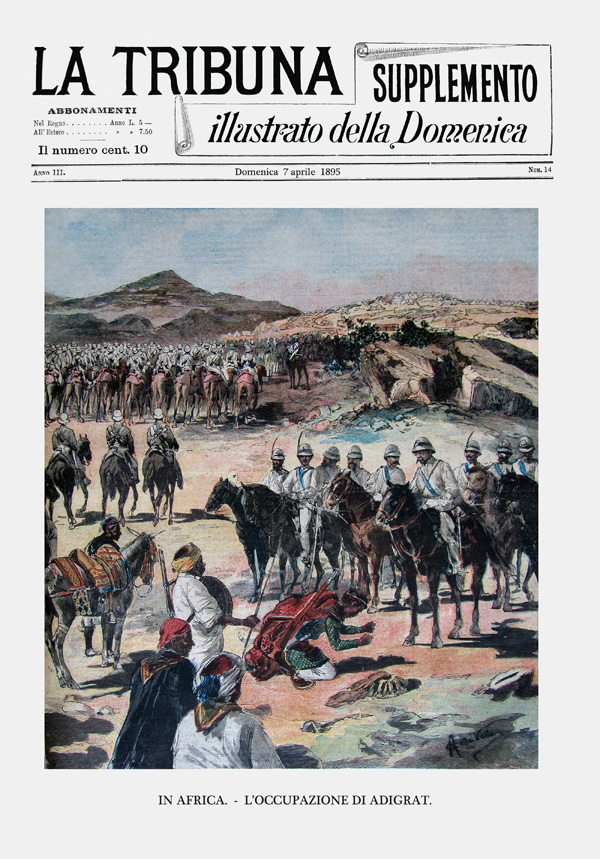 Italian occupation of Adigrat (Ethiopia) in 1895.